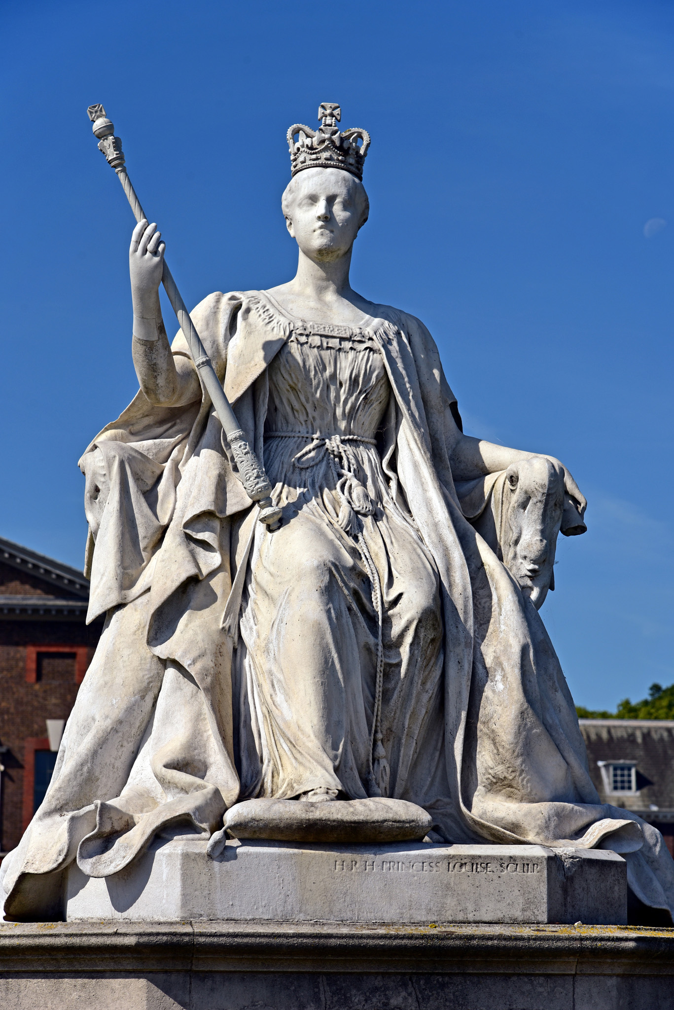 Sculptor: Princess Louise, Duchess of Argyll, c.1893, white marble on Portland stone base. Near to Kensington Palace. Grade II listed. Royal Borough of Kensington & Chelsea, London. ( CC BY-SA - credit: Images George Rex.)